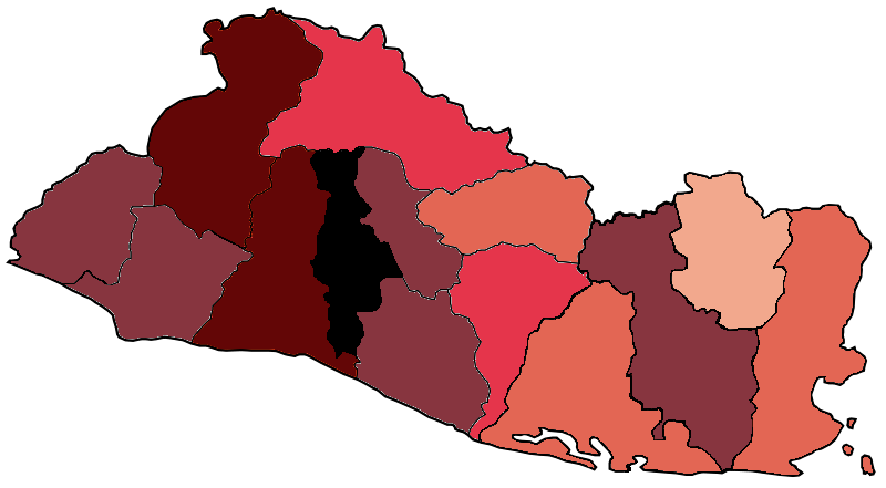 Departments of El Salvador that have reported cases of COVID-19